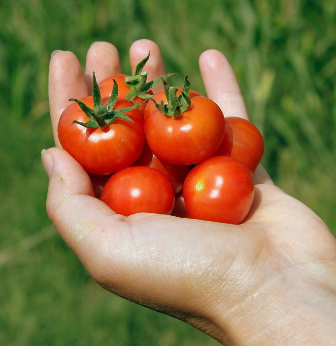 Handheld small tomatoes